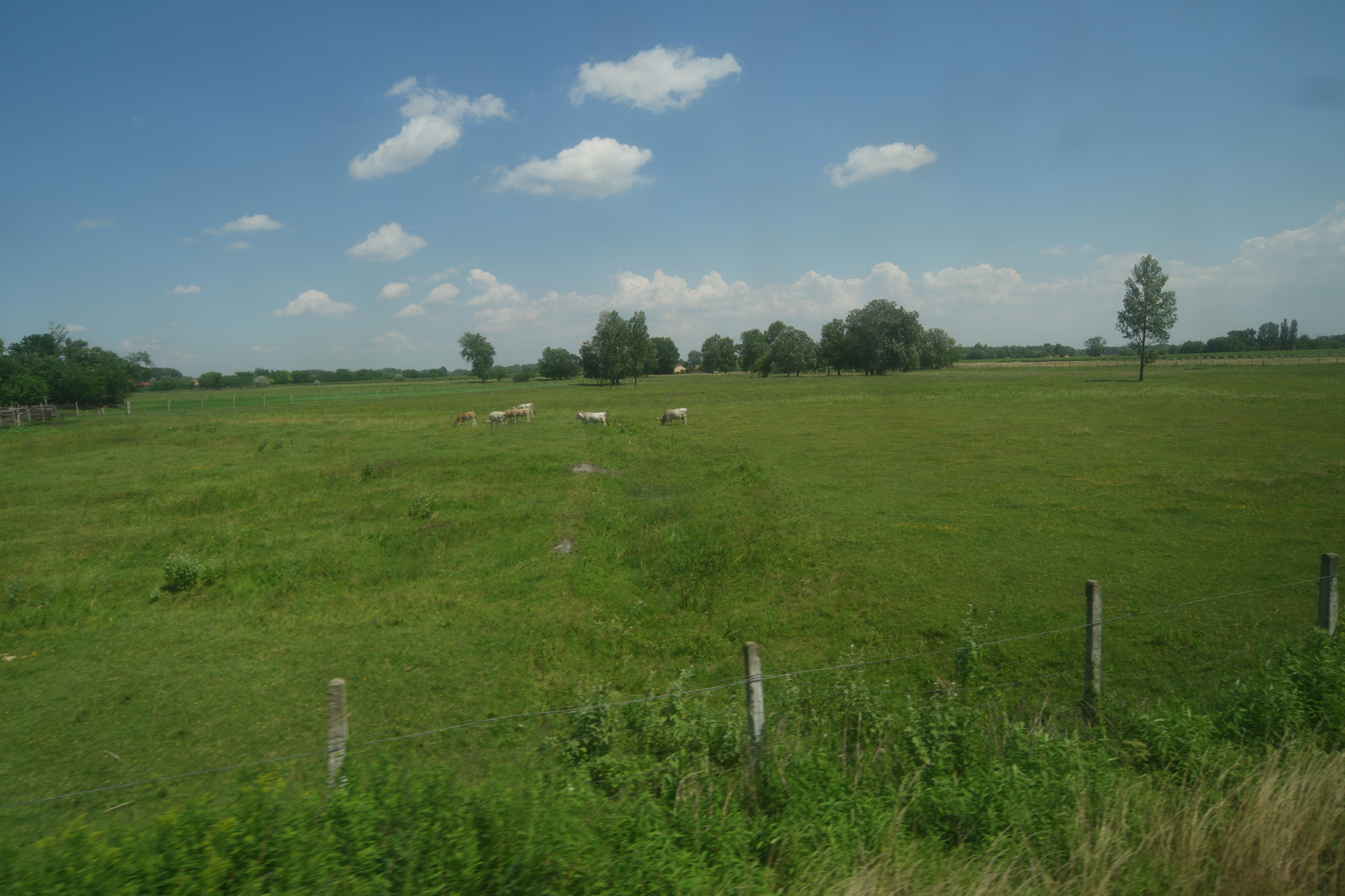 Ungarisches Steppenrind Budapest Belgrad Bahnstrecke